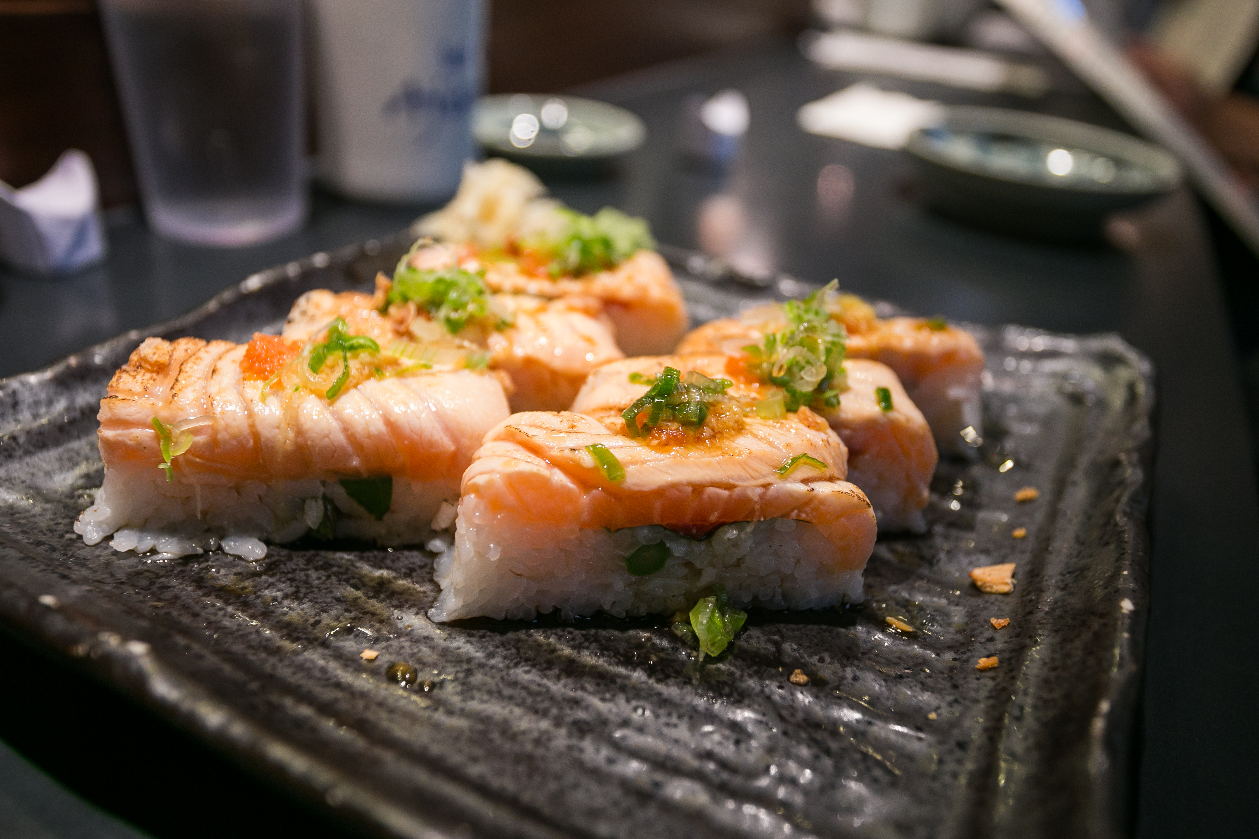 Serious Pie, Seattle, WA Date Visited: June 24, 2013 City Foodsters Facebook | Twitter | Instagram